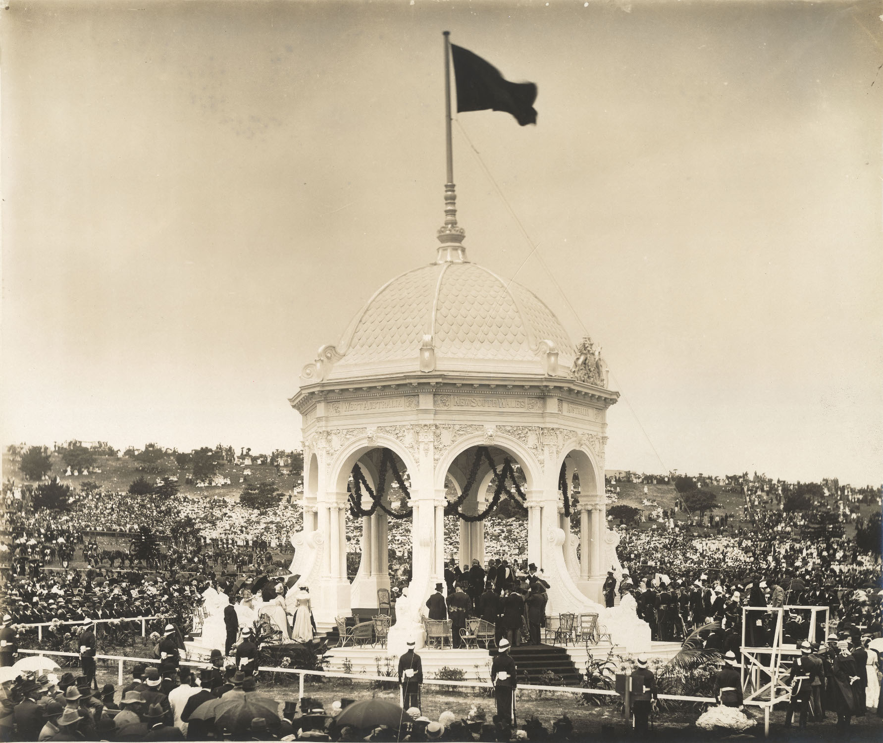 The Federation Pavilion in Centennial Park, Sydney, during the swearing-in ceremony of Australia's first government on 1 January 1901.